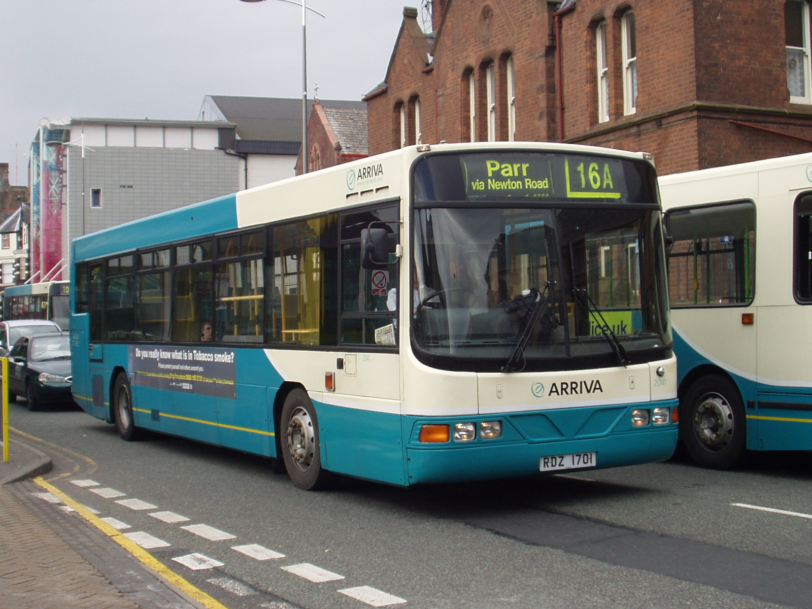 Arriva North West bus 2041 (RDZ 1701), Scania N113CRL chassis, Wright Pathfinder bodywork, location Corporation Street, St Helens.